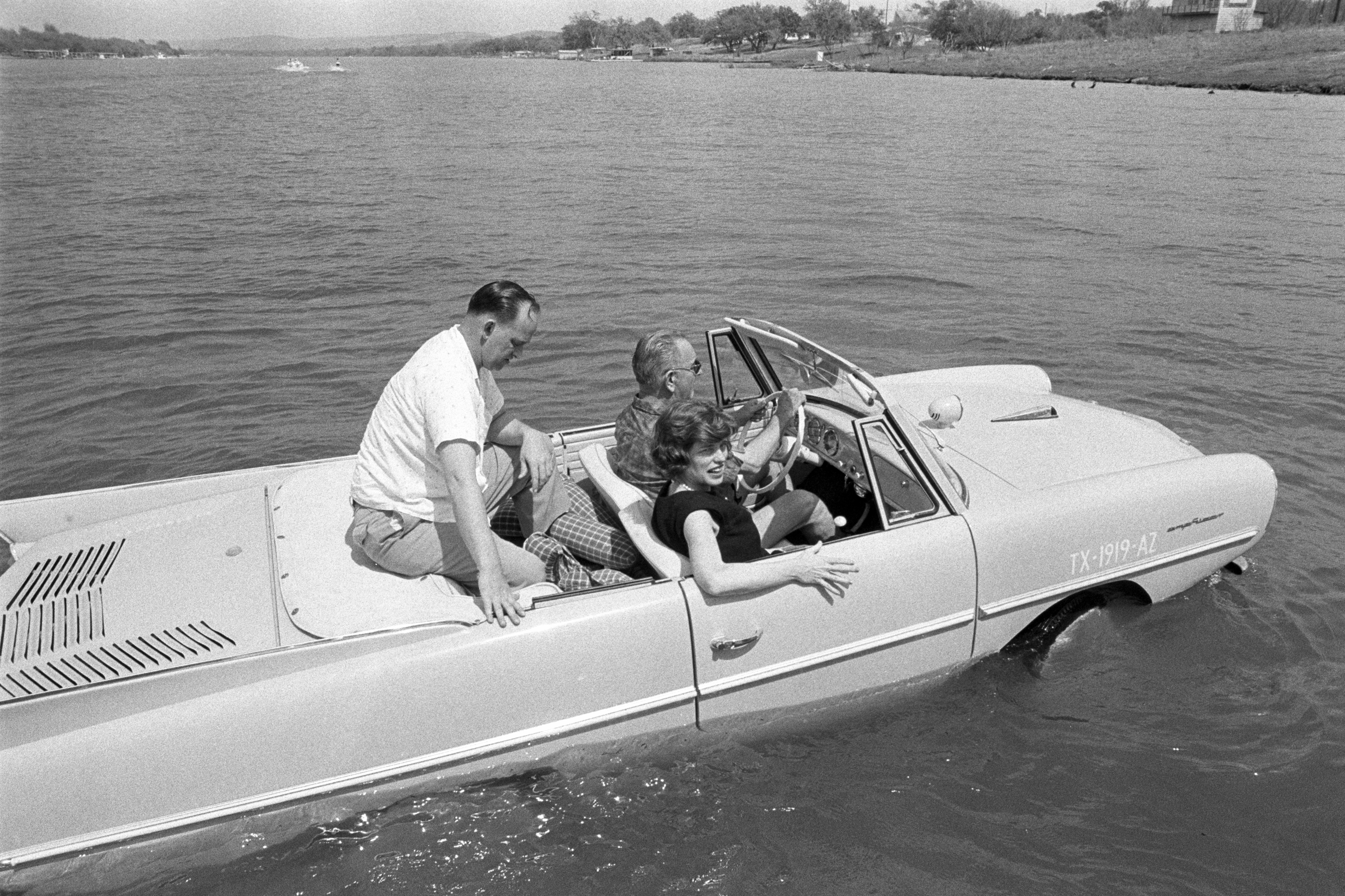 President Lyndon B. Johnson driving an Amphicar, April 10, 1965